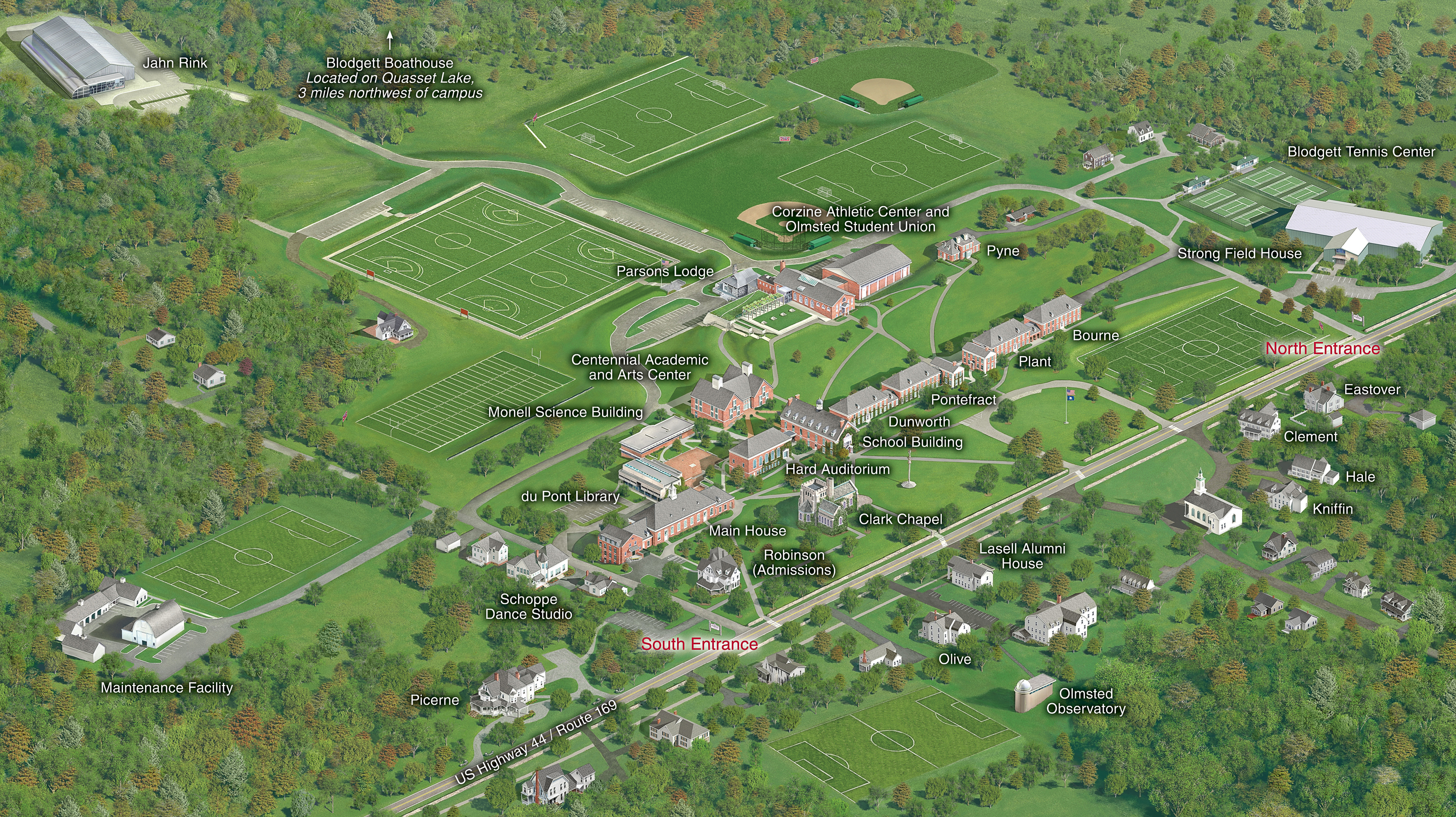 illustration of Pomfret School campus and building labels